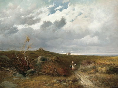 Country road with approaching storm